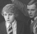 Pearl White and Creighton Hale in The Exploits of Elaine (1914).